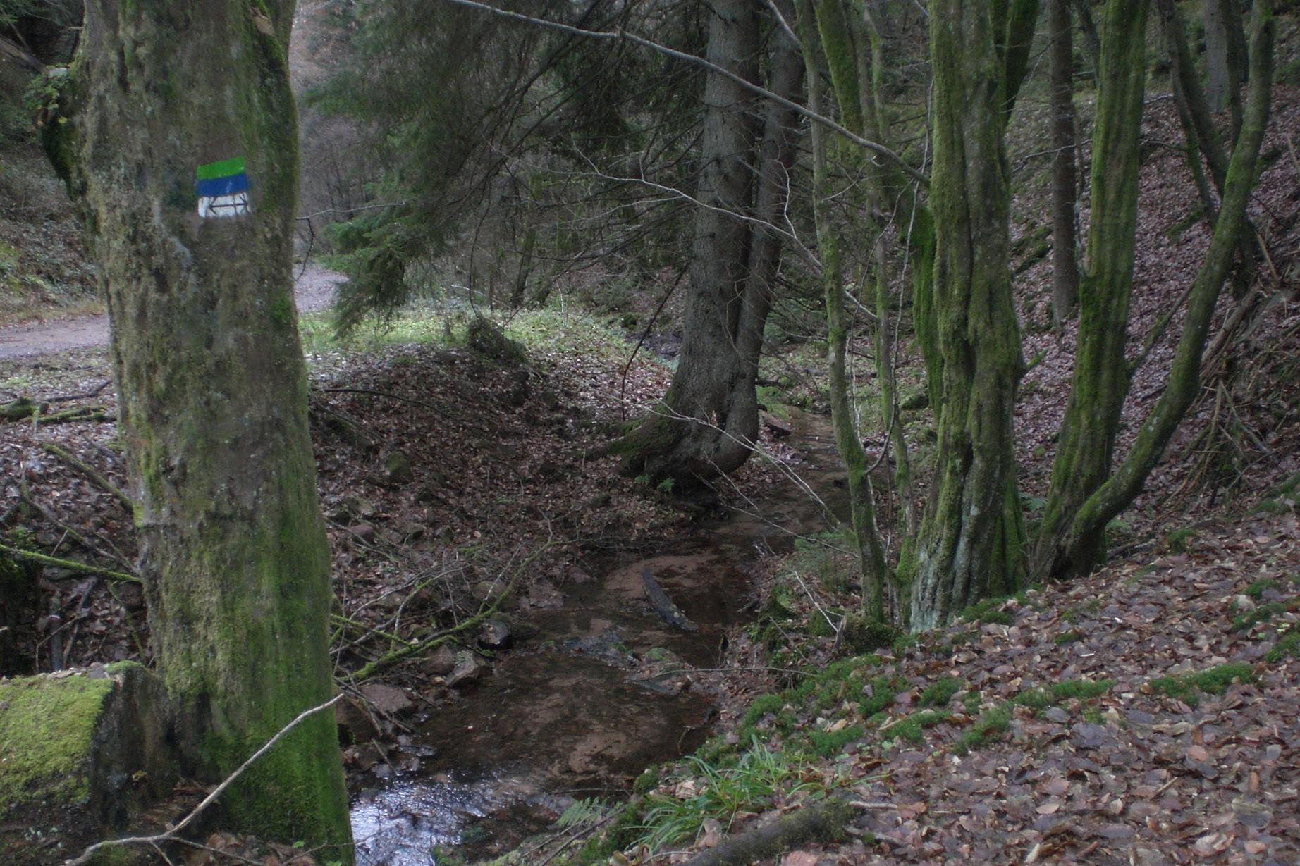 Stream Glasbach, near Frankenstein(Pfalz) in Germany